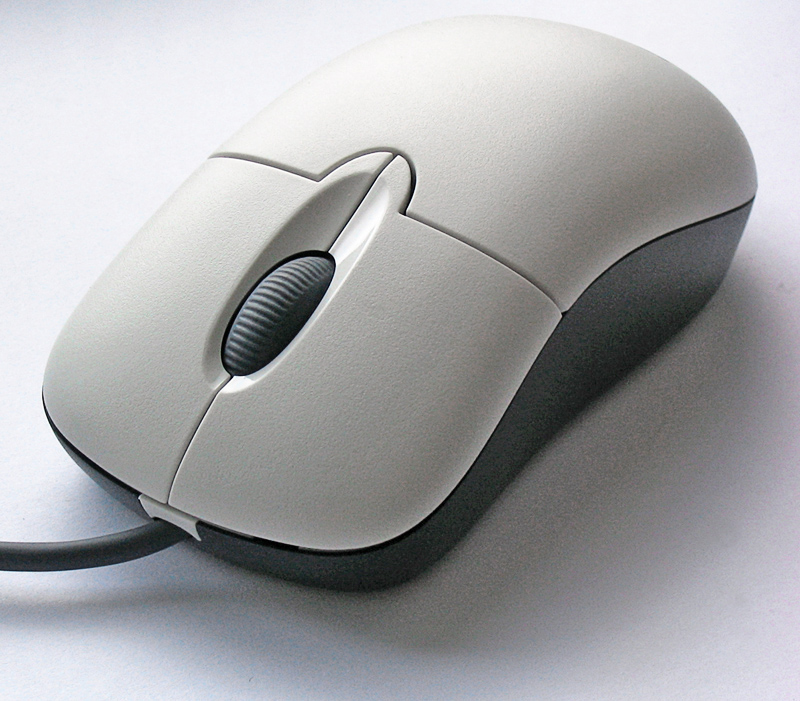 3-button mouse, Microsoft